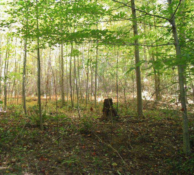 Jefferson Memorial Forest, near Louisville Kentucky.